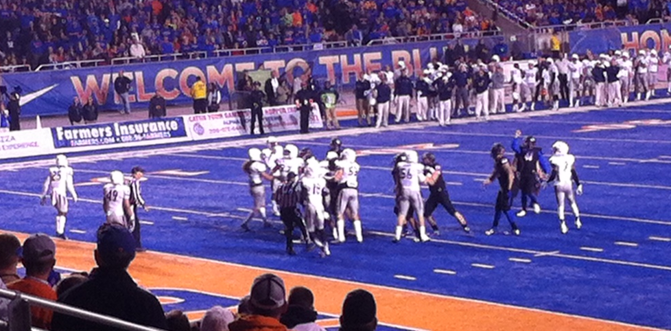 Boise State after kicking an extra point in the second half of their game vs Nevada on October 19, 2013 at Bronco Stadium in Boise, Idaho. Boise State after kicking an extra point in the second half of their game vs Nevada on October 19, 2013 at Bronco Stadium in Boise, Idaho.